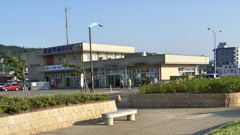 Teradomari Port Terminal of Sado Steam Ship cropped from File:Teradomari Port 01.jpg